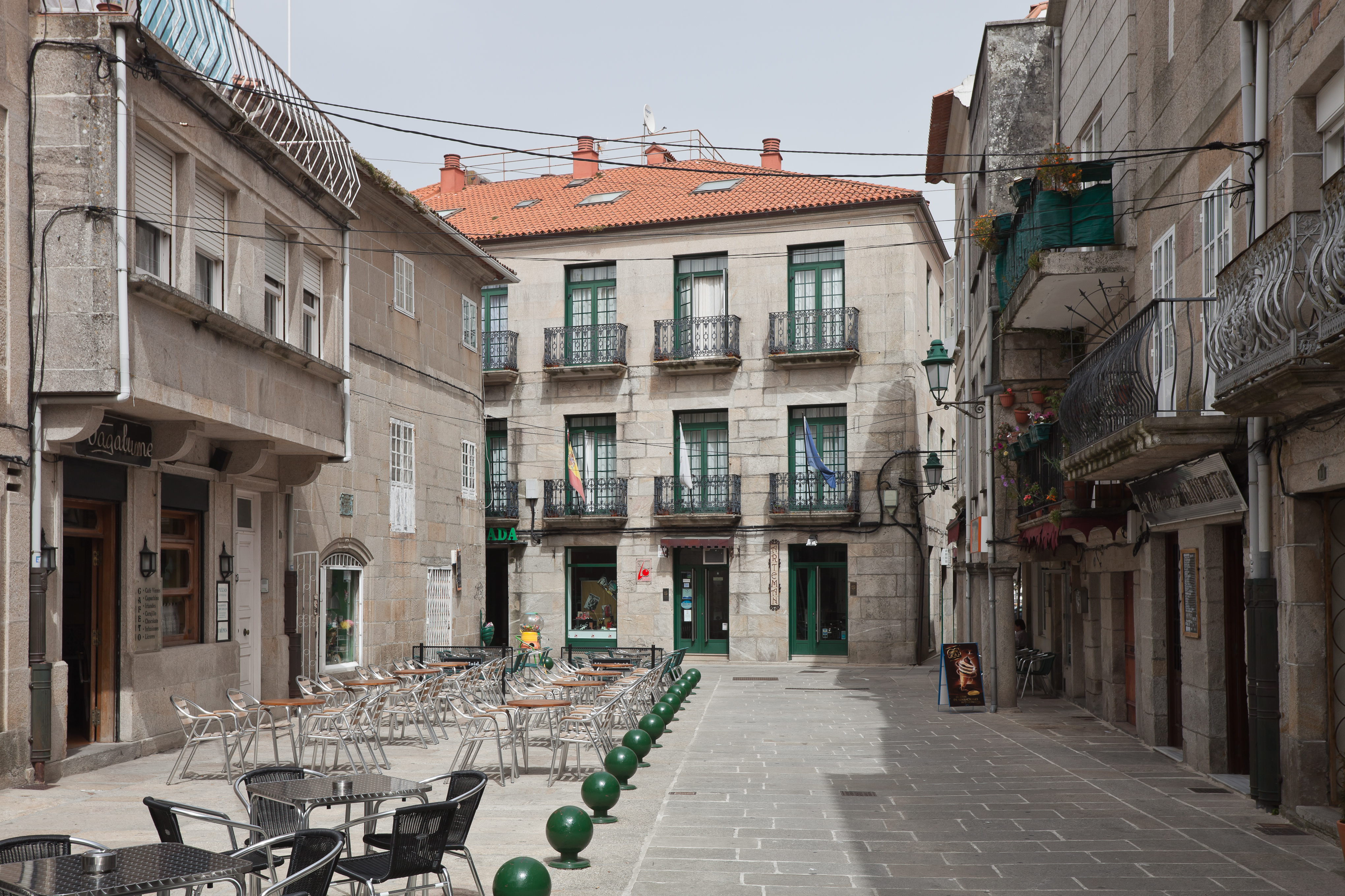 Square of Baiona, Galicia (Spain)